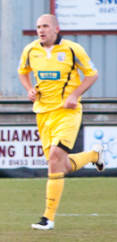 Craig Farrell. Image cropped from original at flickr.